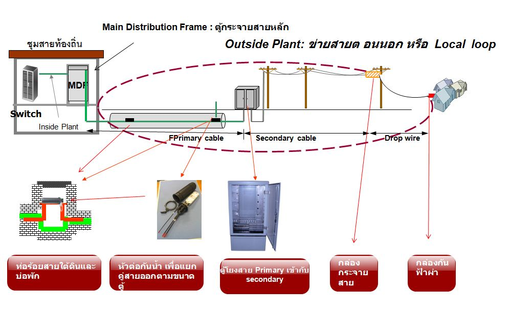 Basic_telephony